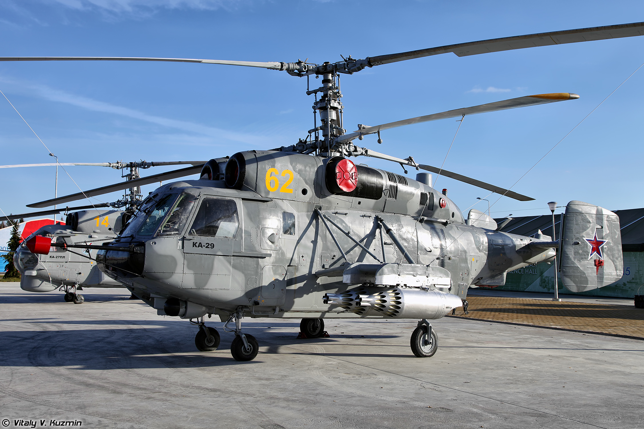 Kamov Ka-29